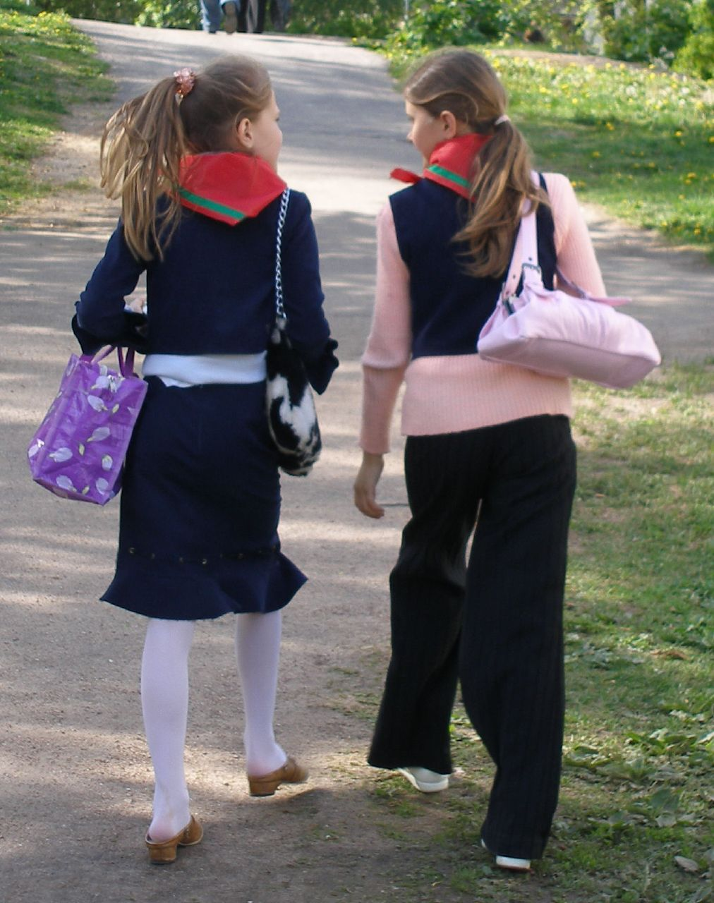 Members of Belarusian pioneer organization in Minsk. Contrary to the file name, these are *not* BRSM members (BRSM has no uniform and is only for people of 14 years and older). The photographer is Flickr user "mirritil."